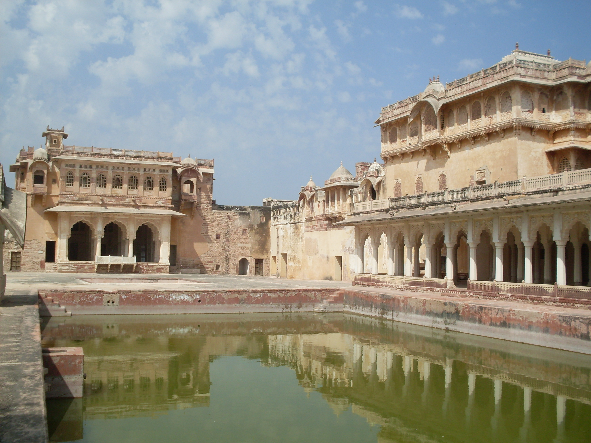 Nagaur (Nāgaur) is a city in the state of Rajasthan in India. It is the administrative headquarters of Nagaur District. The Nagaur city lies about midway between Jodhpur and Bikaner. It was founded by the Naga Kshatriyas.